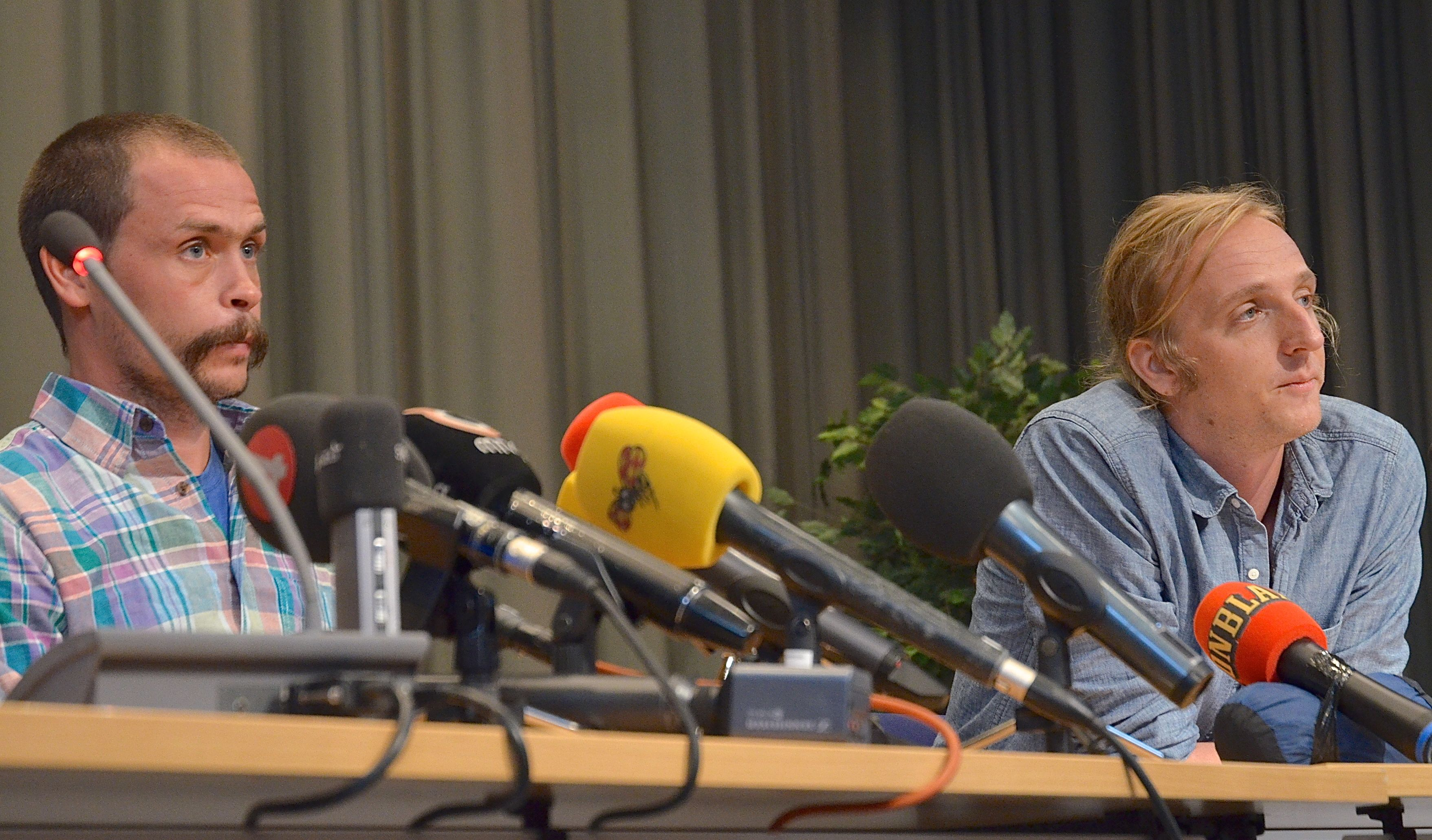 Johan Persson and Martin Schibbye at the press conference in Stockholm september 14th, 2012.